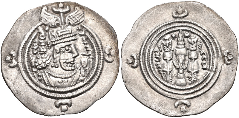 SASANIAN KINGS. Husrav (Khosrau) II. AD 591-628. AR Drachm (33mm, 3.99 g, 9h). ST (Stakhr) mint. Dated RY 33 (AD 624). Crowned bust right / Fire altar with ribbons; flanked by two attendants; RY to left, mint signature to right; star and crescent flanking flames. SC Tehran 3284-90; Sunrise –. EF, areas of light toning.